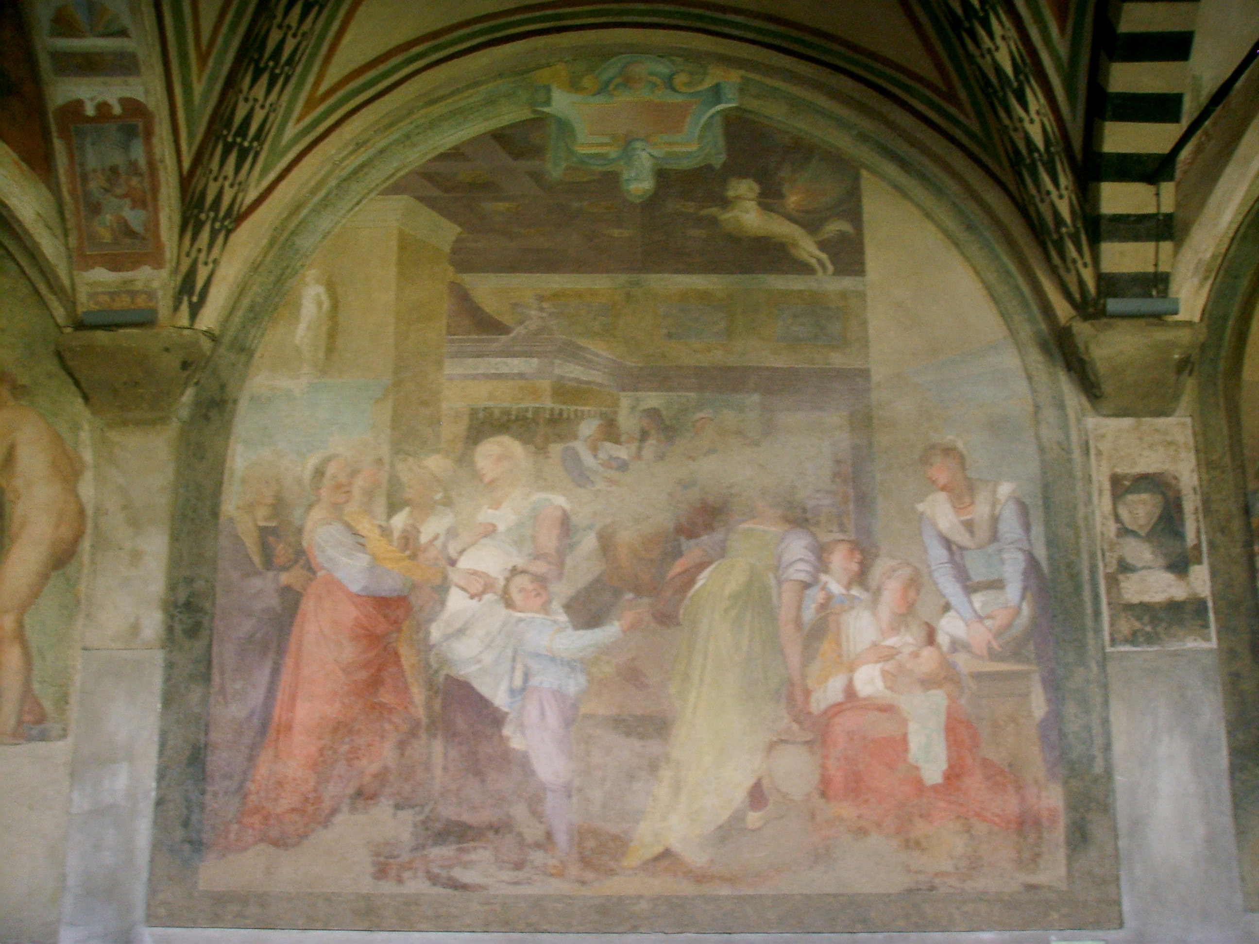 Chiostro Grande in Santa Maria Novella church fresco in Florence, Italy